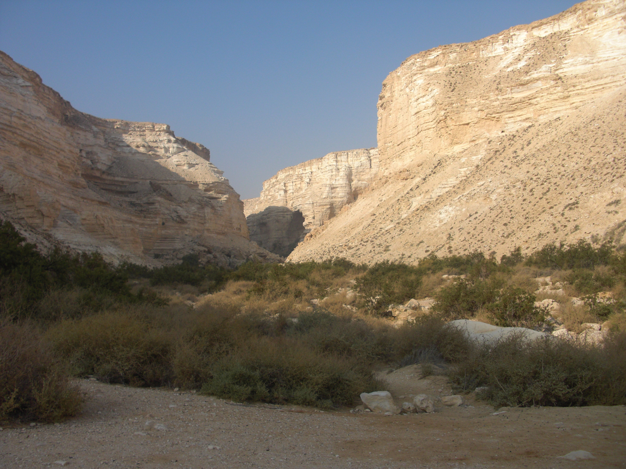 Day 6 - Ein Avdat Nature reserve in the Negev desert.